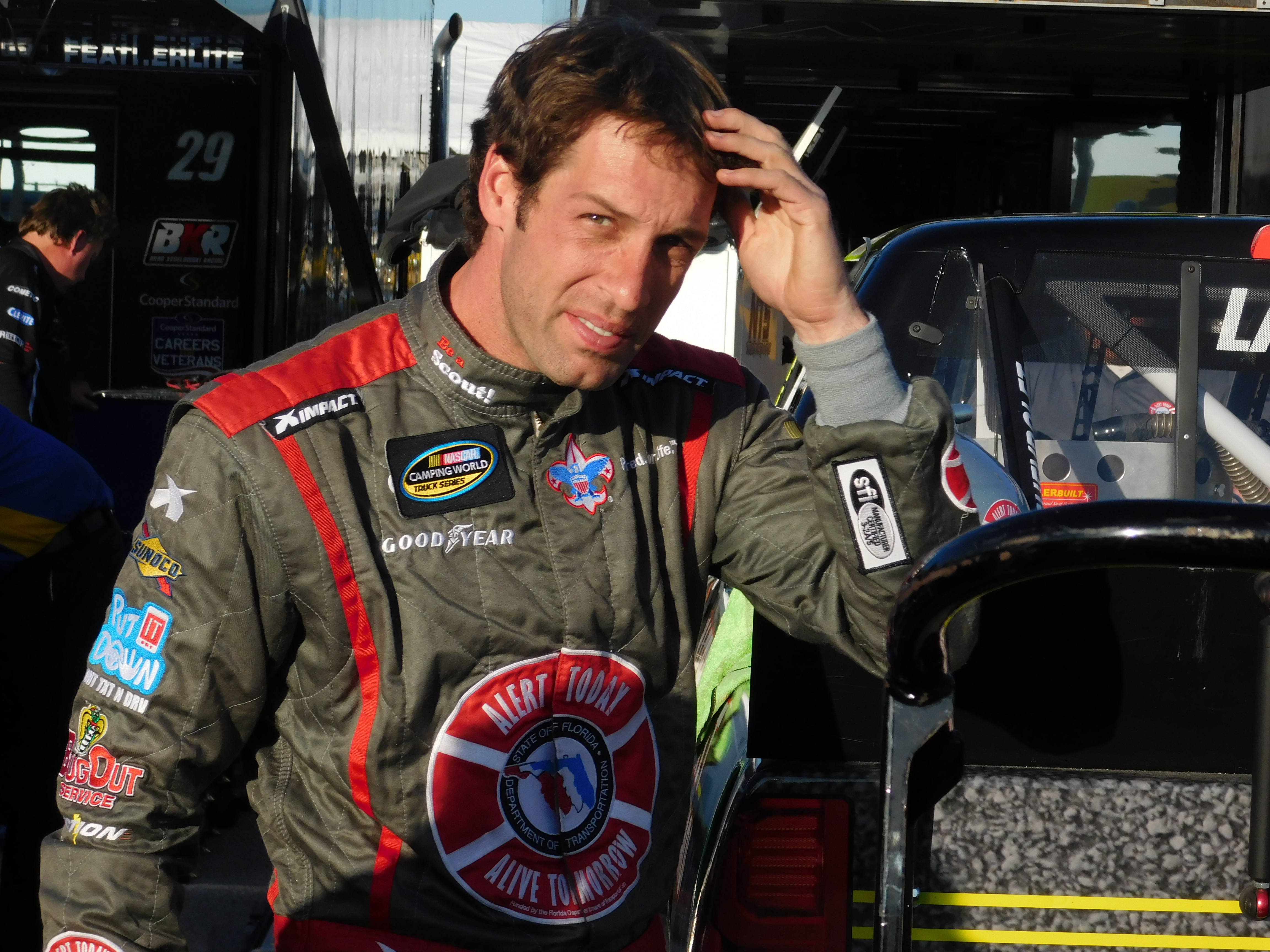 Scott Lagasse Jr. at Daytona International Speedway in 2016